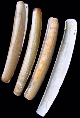 Ensis phaxoides; Marine bivalved shell from the North Sea.